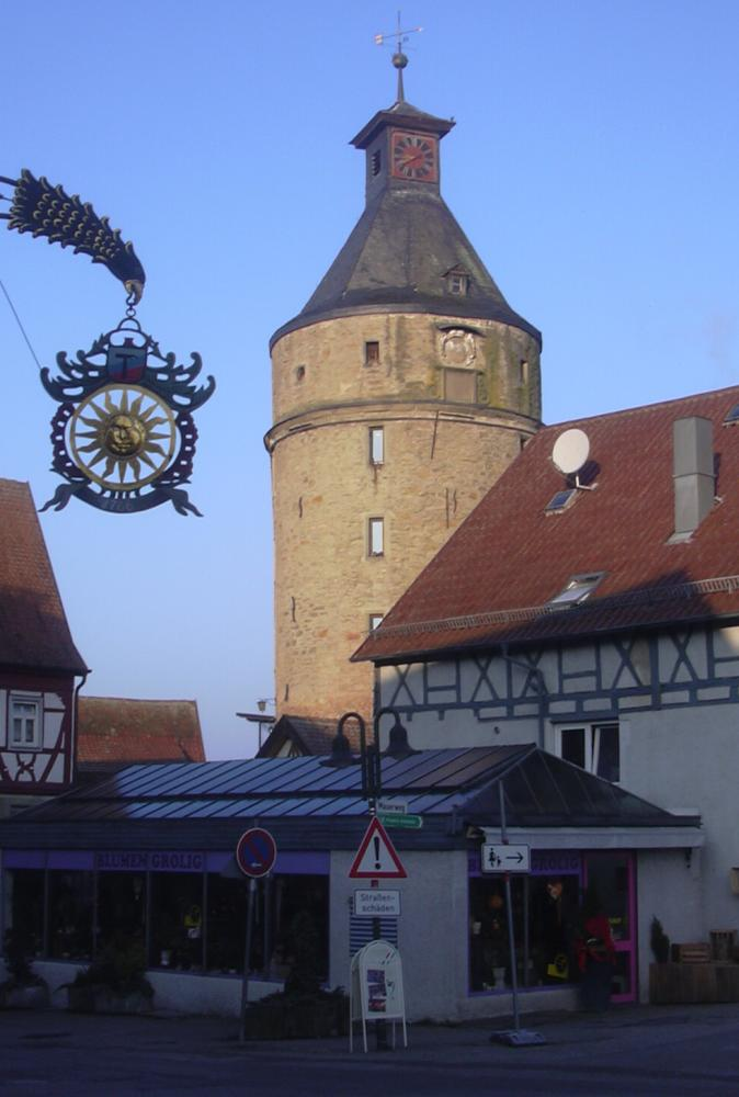 "Bürgerturm", old city tower, in Neuenstein, Germany